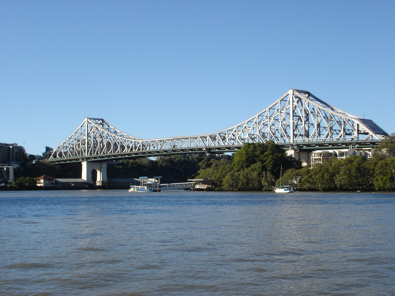 Story Bridge in Brisbane from the CityCat